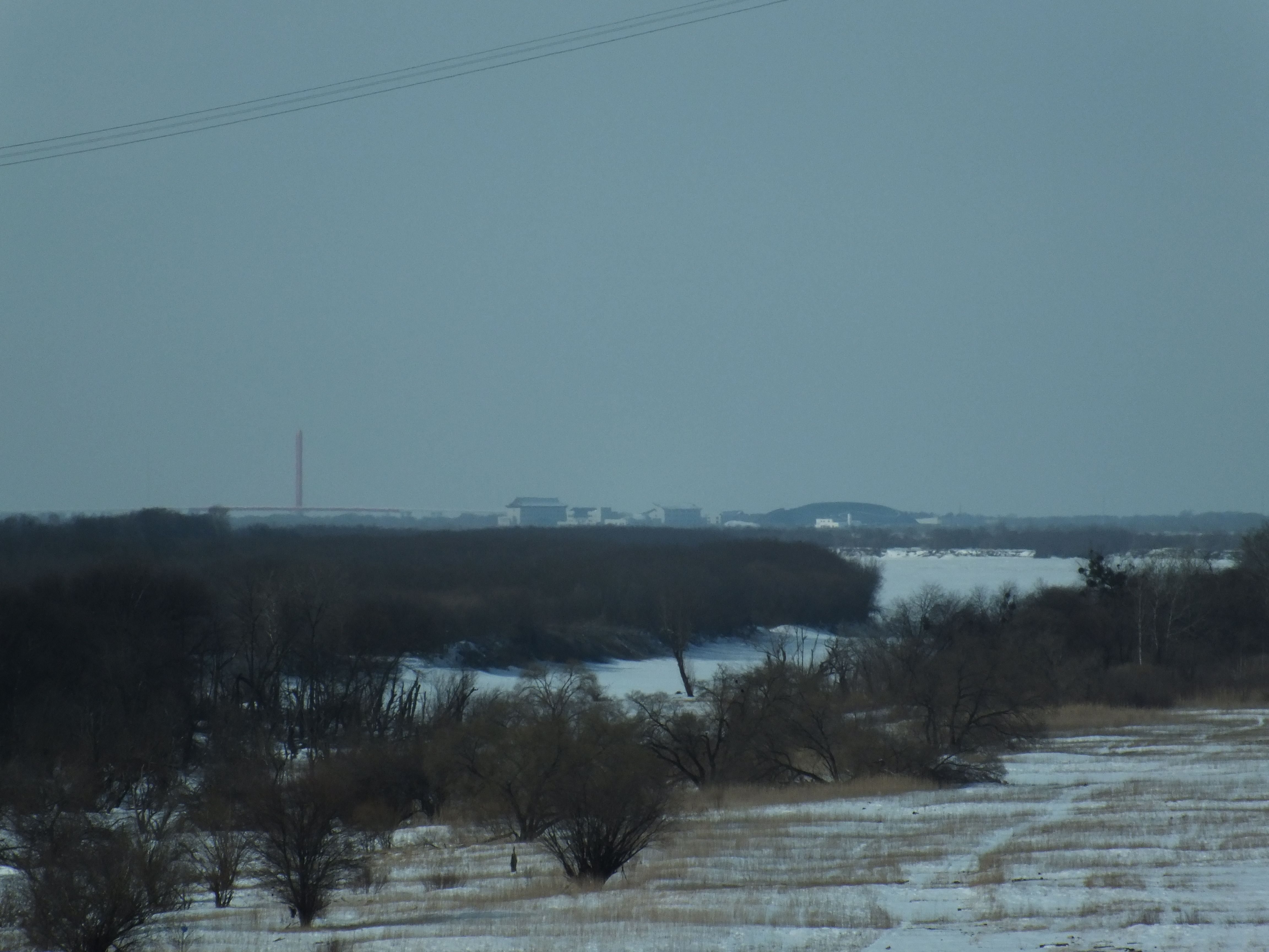 Amurskaya protoka